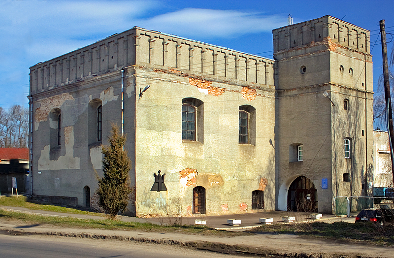 the great synagogue of Lutsk